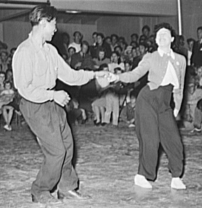 The original caption read: "Jitterbug contest at the dance which closed the second annual field day at the FSA (Farm Security Administration) farm workers' community. Yuma, Arizona."